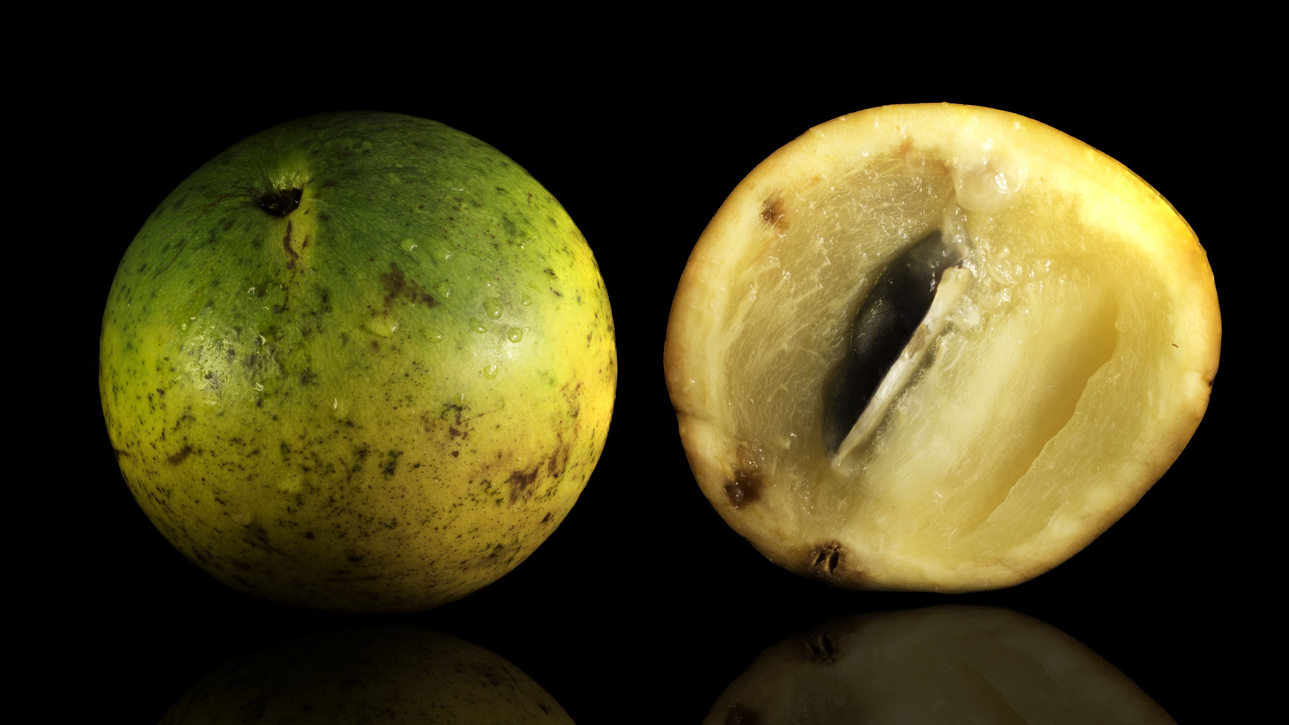 Abiu (Pouteria caimito) in a black background.